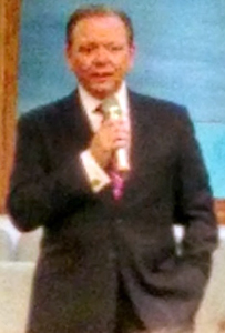 Gerald Wolfe of the gospel music trio Greater Vision